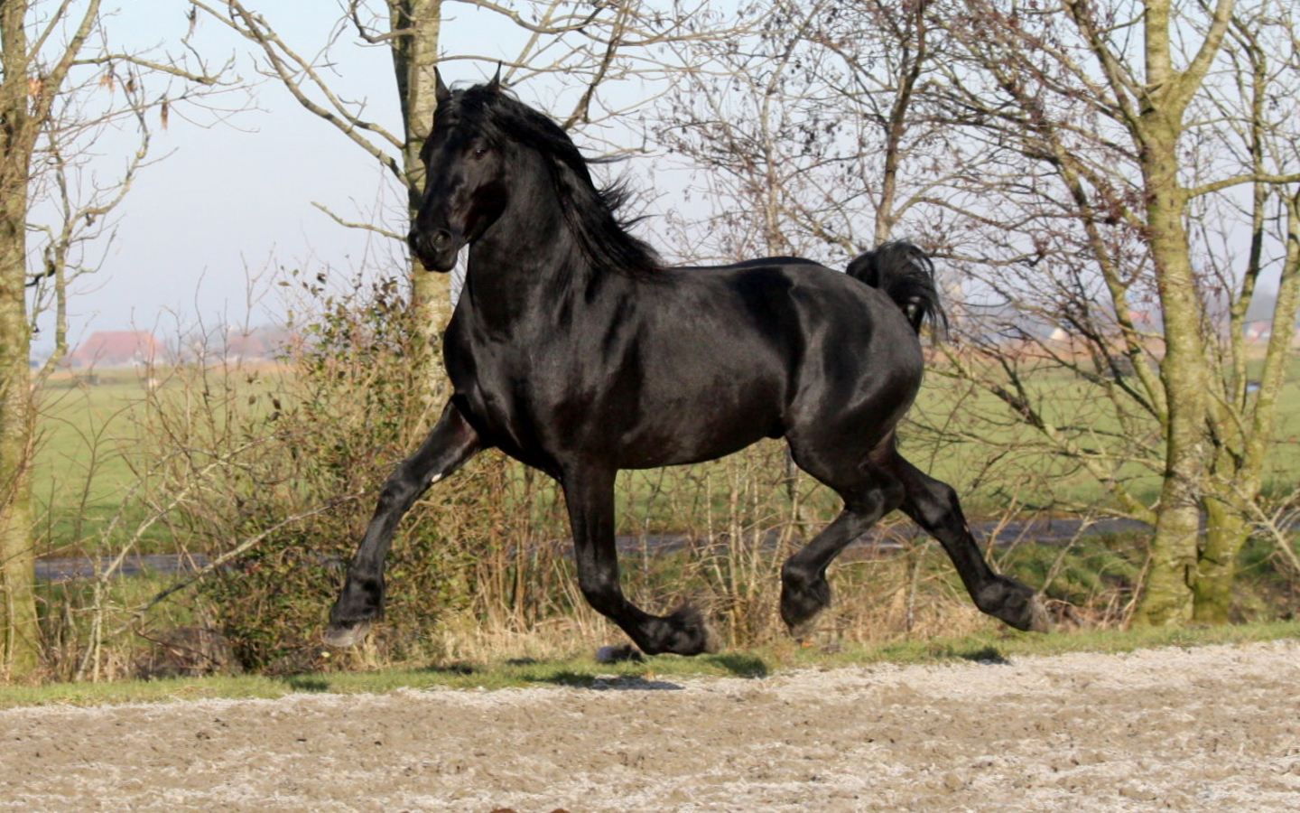 A trotting Warlander horse, a cross between the Andalusian and Friesian The factual accuracy of this description or the file name is disputed. Reason: Please see the relevant discussion on the talk page.